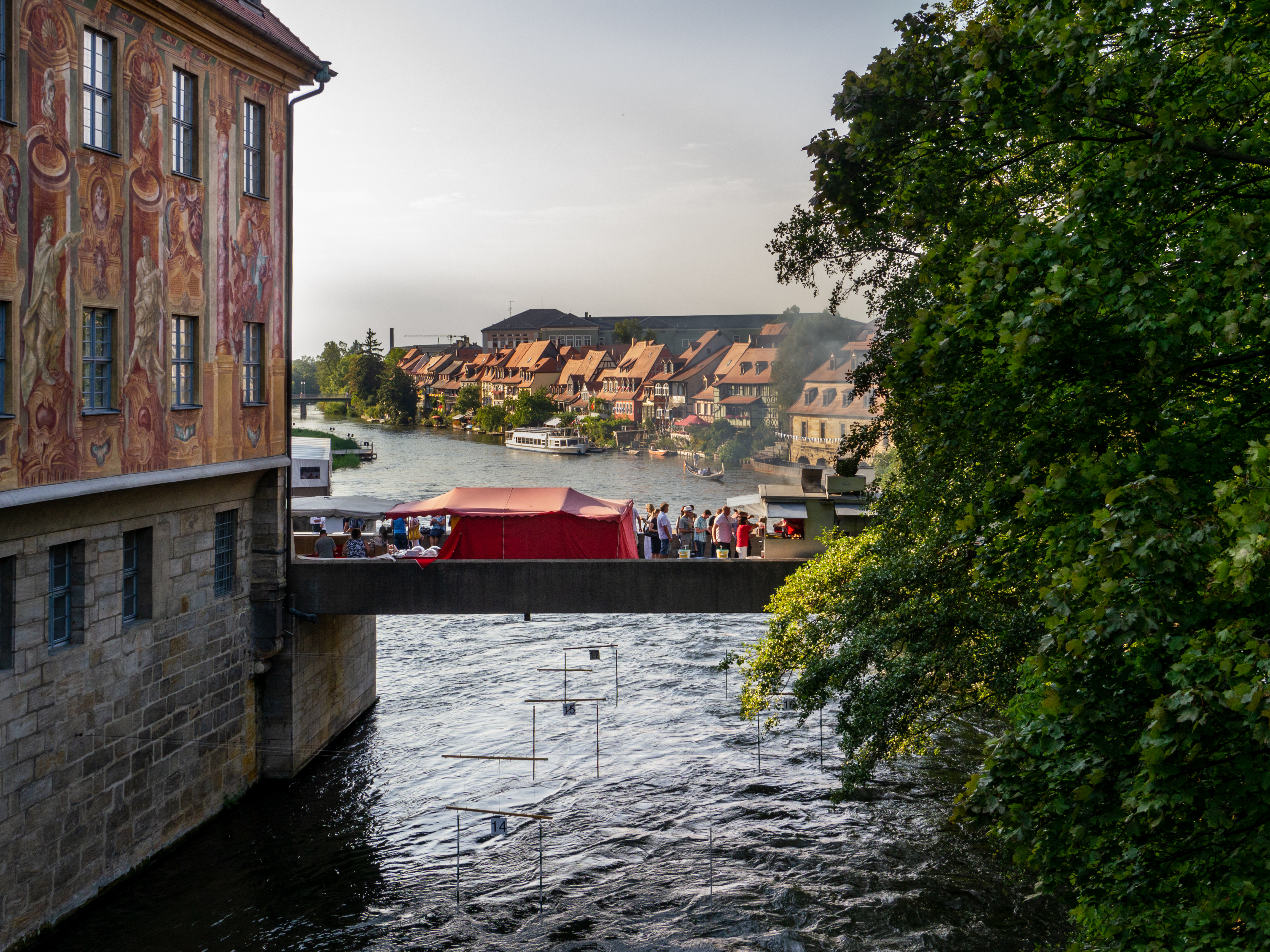 The lower town hall bridge and Little Venice in Bamberg during the Sandkerwa 2011 in Bamberg